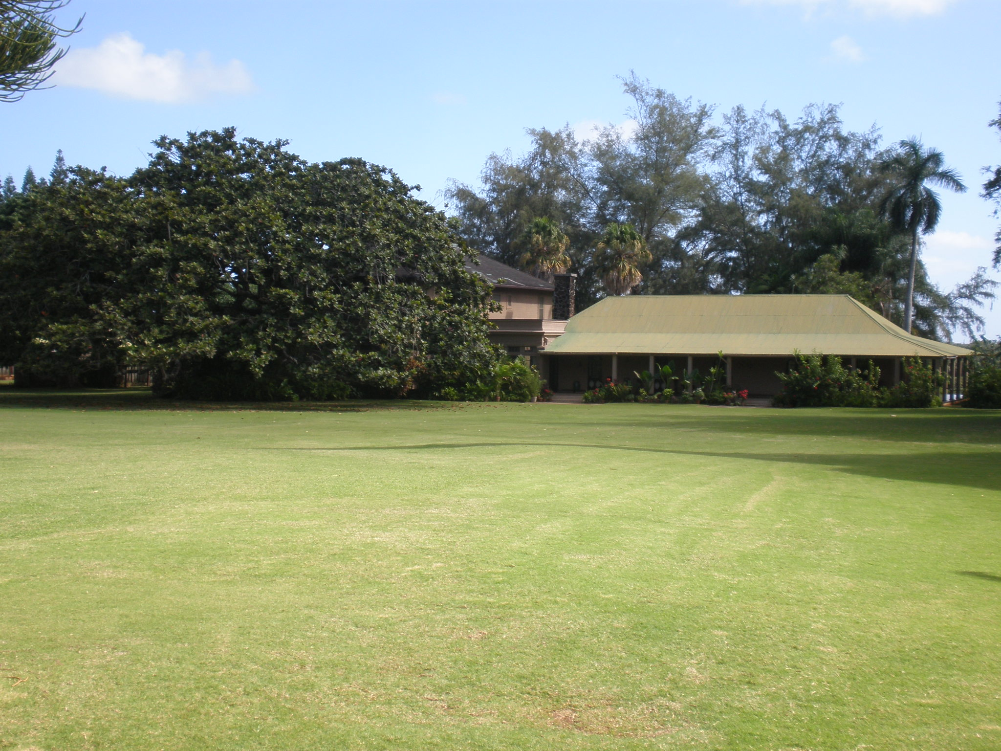 Grove Farm Homestead, Nawiliwili Rd., Lihue, Kauaʻi, on National Register of Historic Places. Built 1864 for plantation owner George N. Wilcox. Converted to museum in 1978.